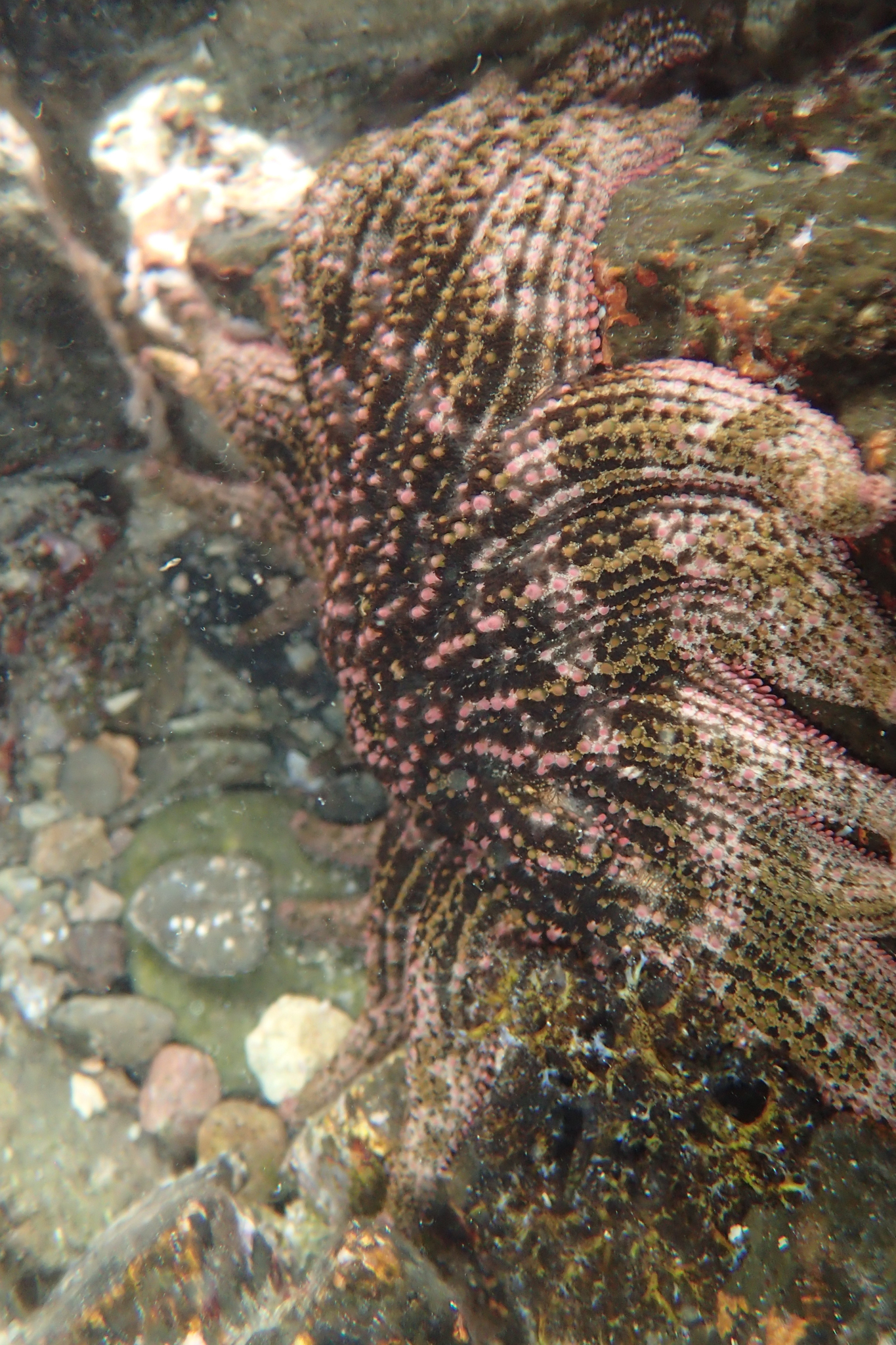 Gulf Sun Star (Heliaster kubiniji) seen in South California.